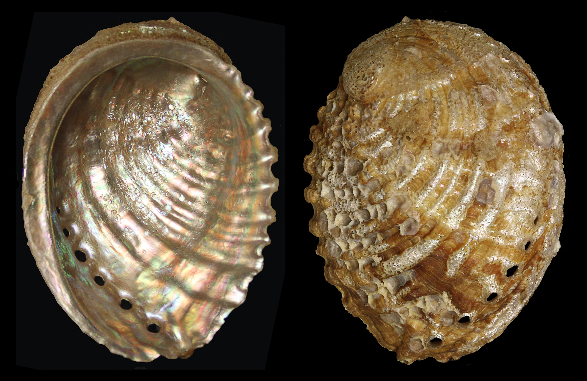 Haliotis mariae W.Wood, 1828 Oman, length 135 mm.